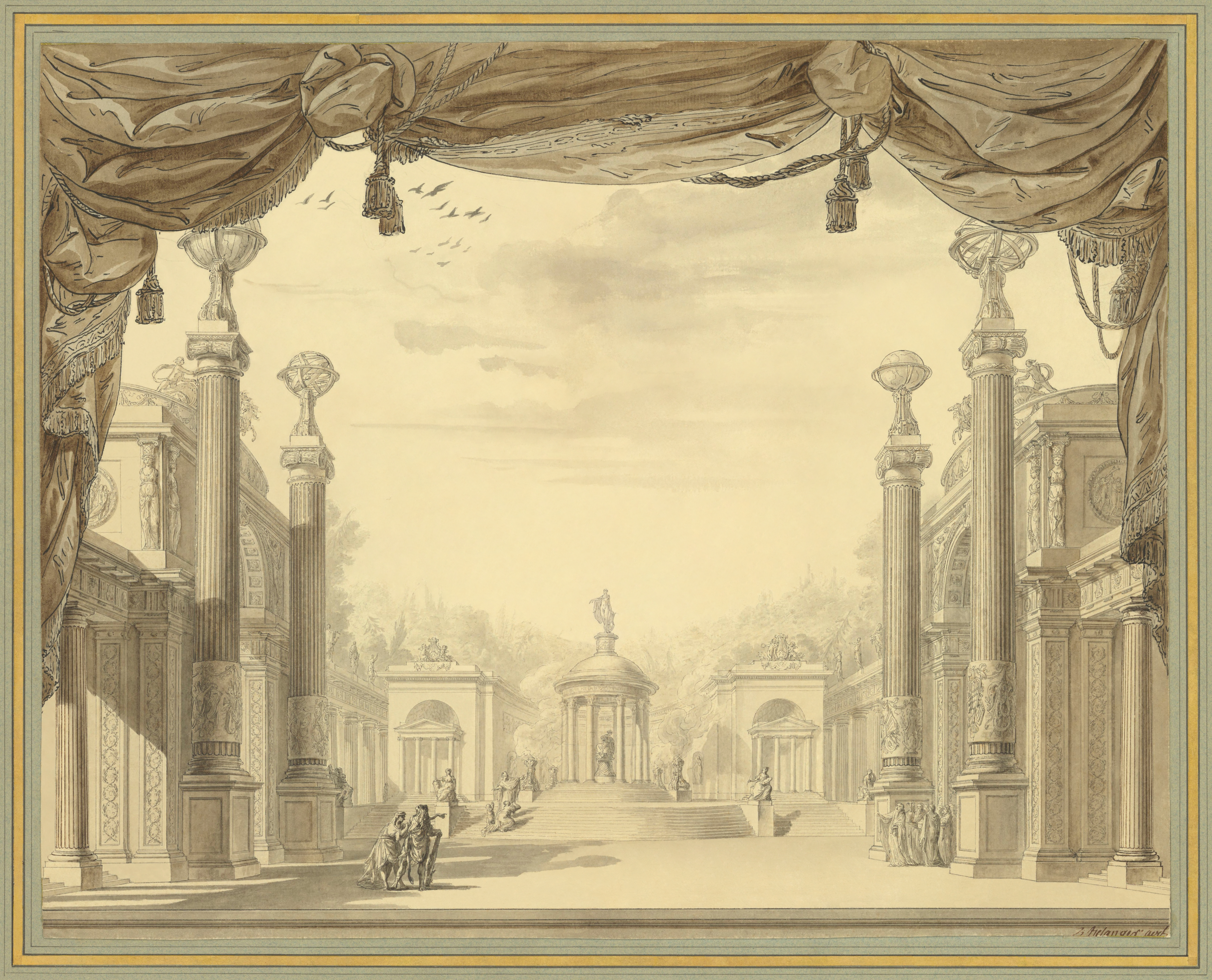 Set design for the 1776 première of the French version of Christoph Willibald Gluck's Alceste. Note Hercules in the left foreground, wearing the lionskin that traditionally marks him; He did not appear in the original Italian libretto.